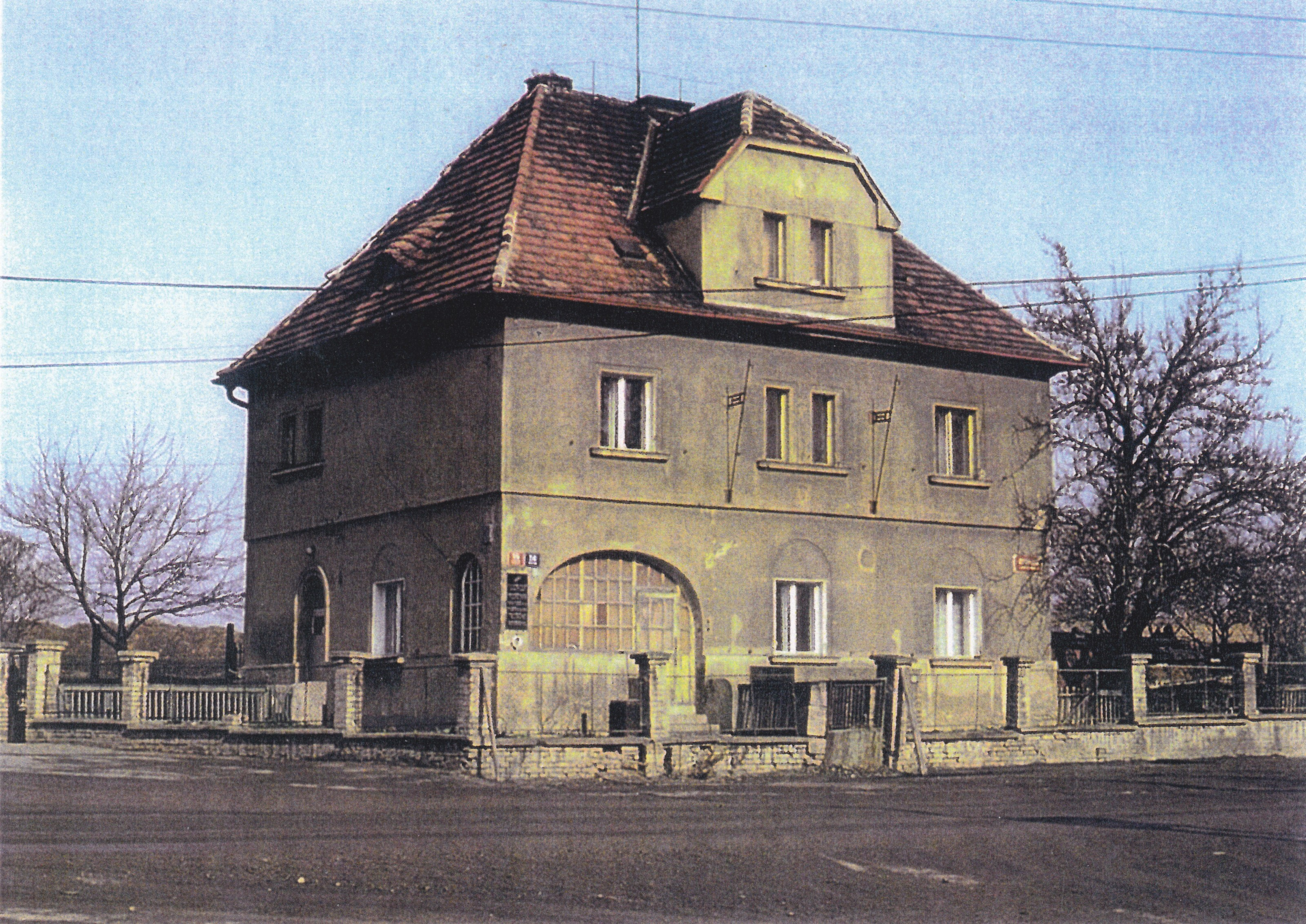 Unique photos of the former Customs House at the food line in Prague Jinonice. During Protectorate of Bohemia and Moravia (in the period from August 1, 1941 to October 4, 1941) broadcasted from this place the illegal radio "Sparta" encrypted messages dedicated to exile cs. government (in London).